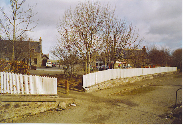 Maud, Aberdeenshire, as seen from the old Station